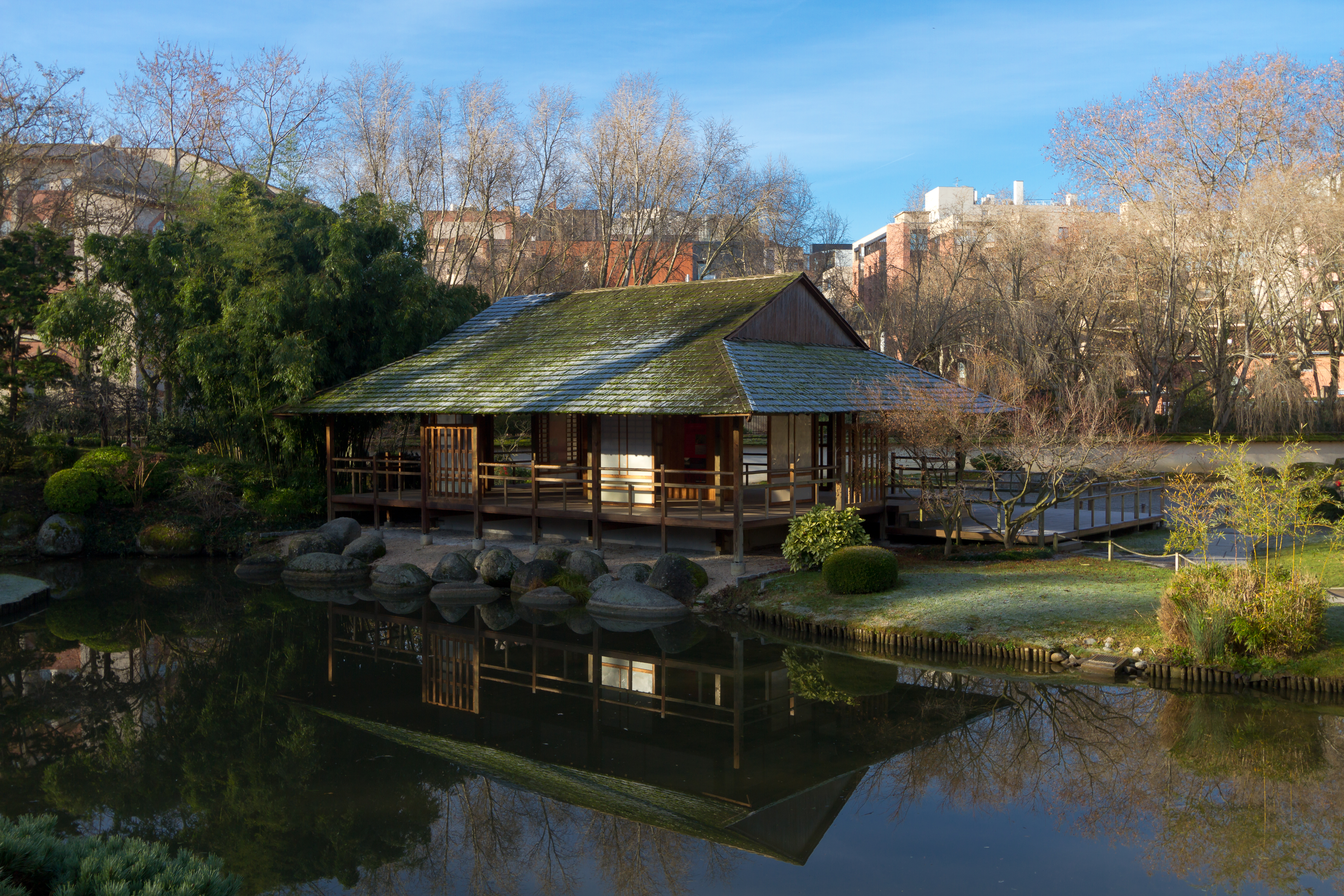 Japanese style tea house in japanese garden in Toulouse